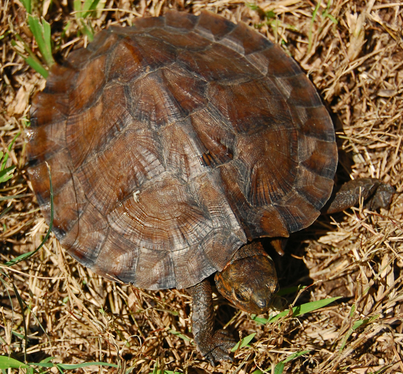 Young Cyclemys dentata (carapace length 14cm). From Banten, West Java, Indonesia.